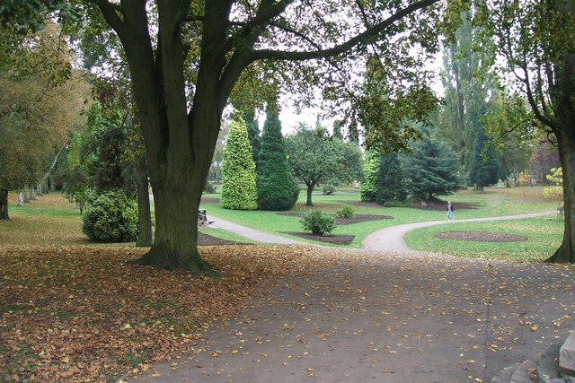 Miners Welfare Park, Bedworth As seen from just inside the Coventry Road entrance.